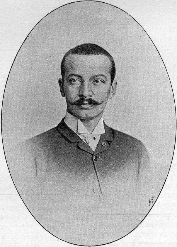 Nova iskra